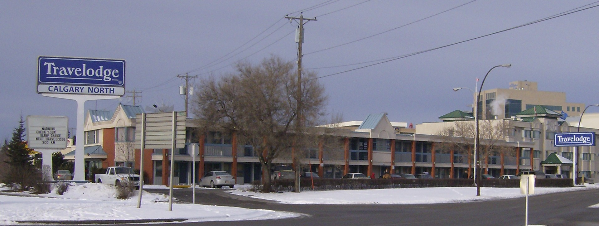 Calgary North Travelodge, 2304 16th Avenue NW, Calgary, Alberta, Canada.